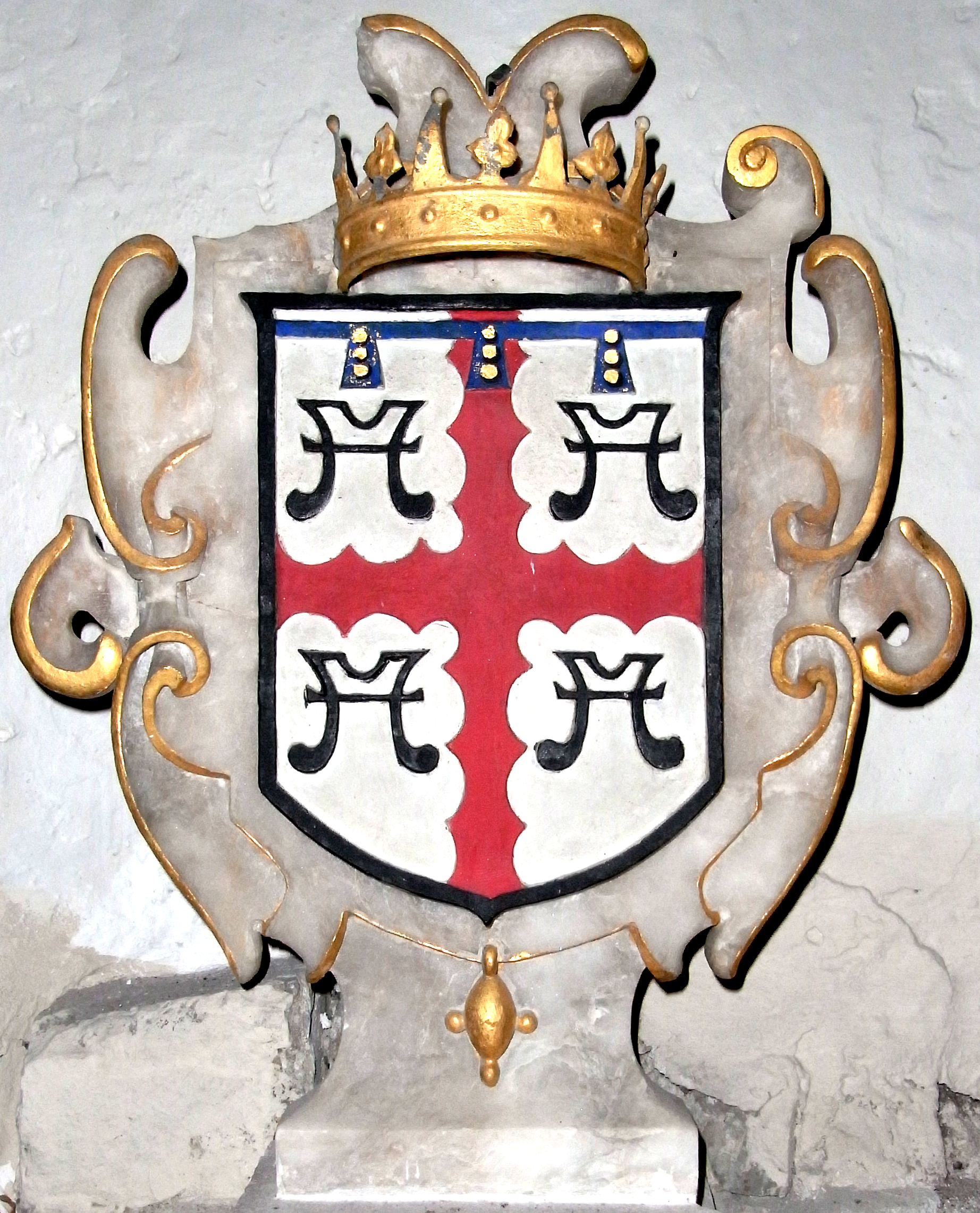 Arms of William Bourchier, 3rd Earl of Bath (29 Sep 1557 - 12 July 1623) shown on top of his monument in Tawstock Church, Devon. Blazon: Argent, a cross engrailed gules between four water bougets sable a label of three points azure each point charged with three bezants for difference